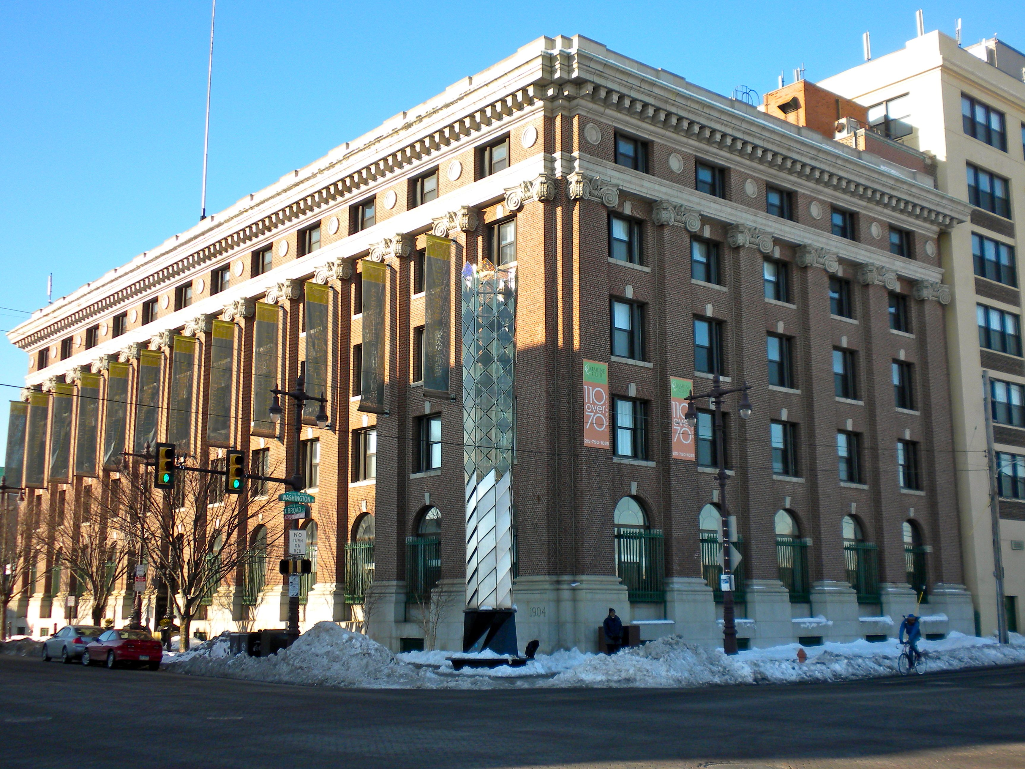 Marine Corps Supply Activity, aka the Marine Club, on NRHP since August 6, 1975. 1100 South Broad Street (at Washington) in the Point Breeze neighborhood of Philadelphia. On the corner is one of sculptor Ray King's "Philadelphia Beacons", which are located at the four corners of the intersection.